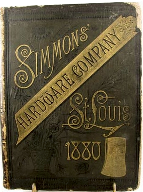 Simmons Company Hardware brochure from 1880 - owner of keen kut trademark